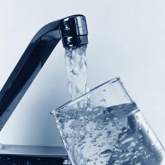 The Safe Drinking Water Act of 1974 has the primary goal of protecting public health through maintaining and improving the quality of our nation’s drinking water.